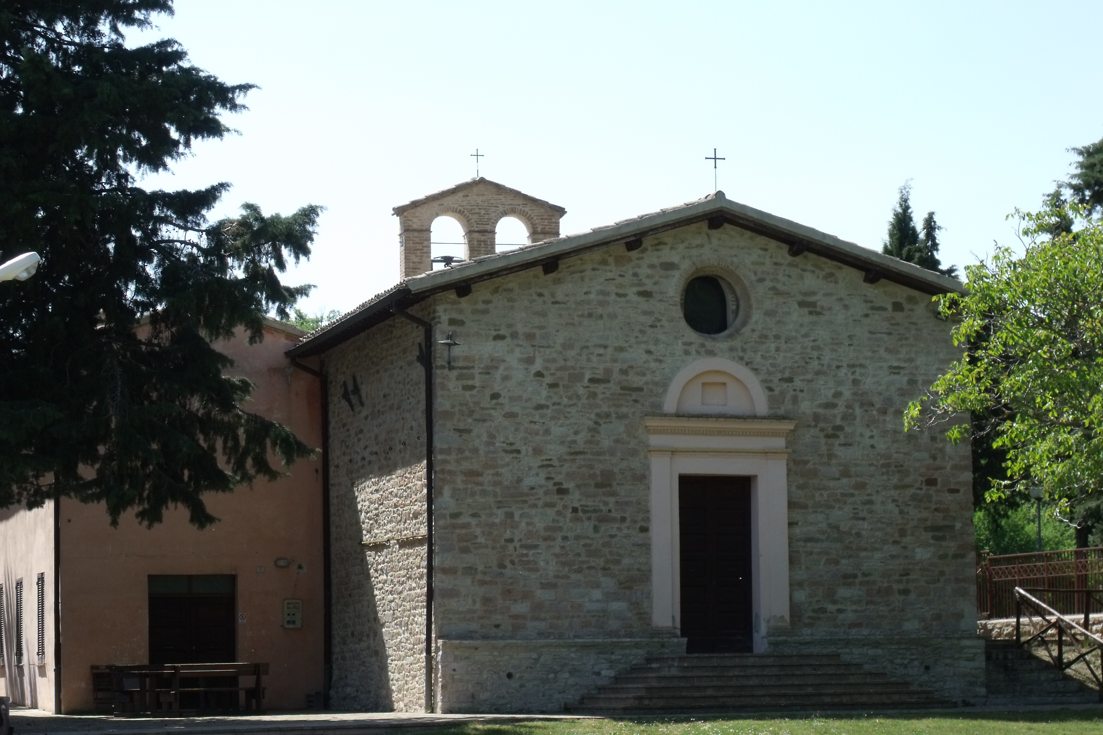 The Church Chiesa di Santa Cristiana in Valtopina, Province of Perugia, Umbria, Italy